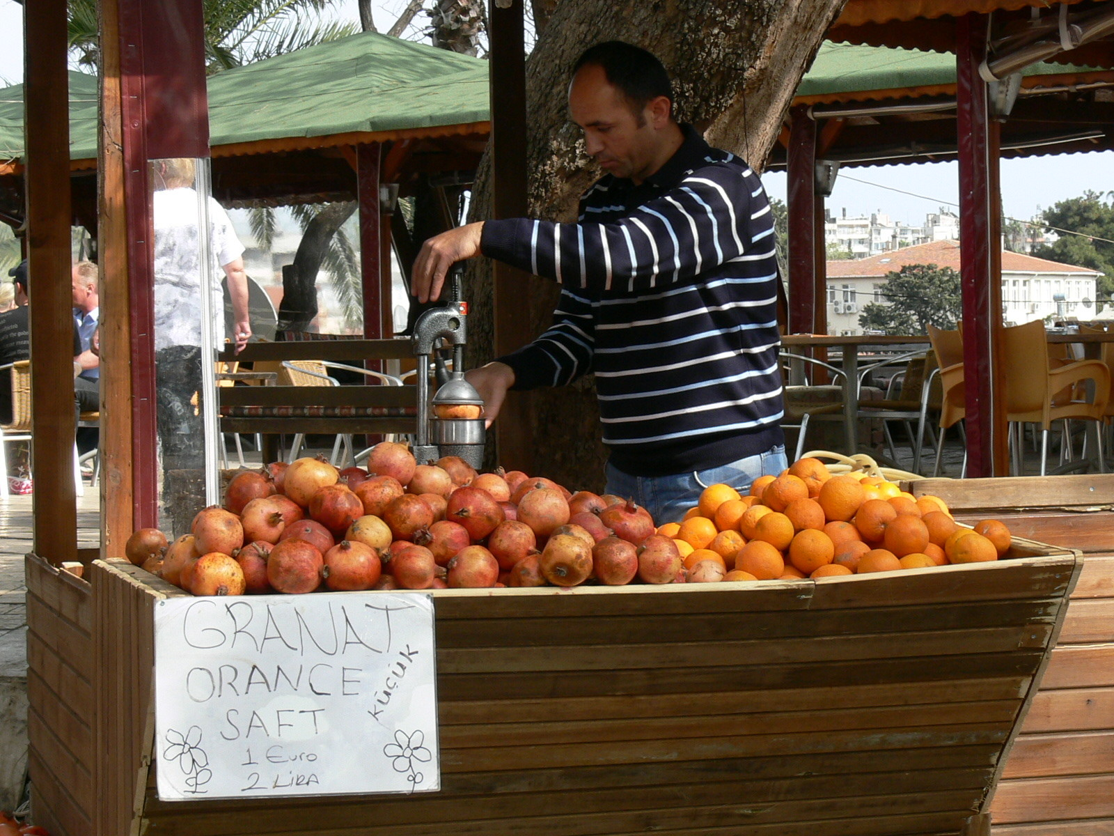 Antalya (Turkey). Shop selling fresh squeezed juice of oranges and pomegranates.